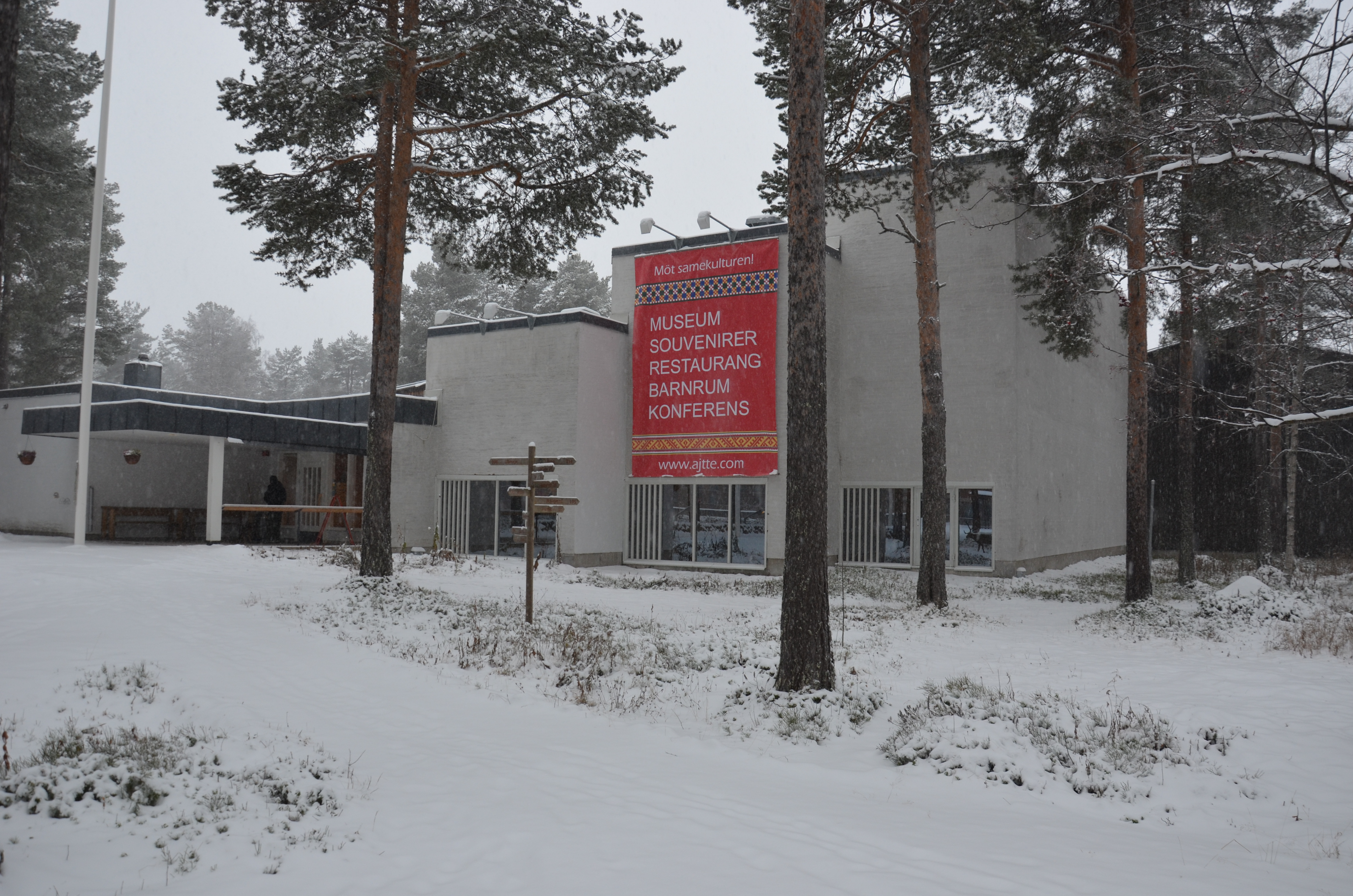 Ajtte entré